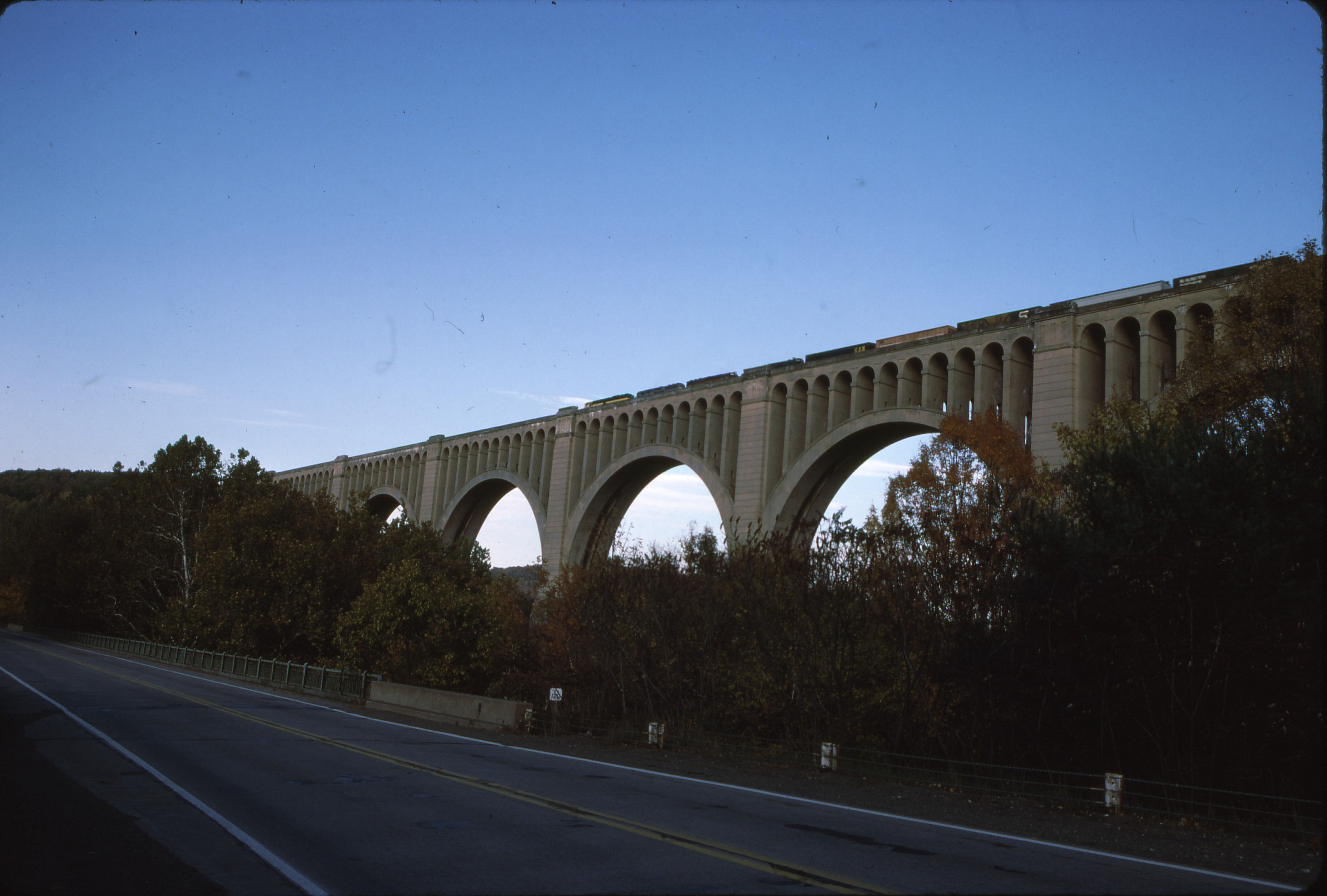 Tunkhannock Creek Viaduct (also known as the Nicholson Bridge) is a concrete deck arch bridge that spans the Tunkhannock Creek in Nicholson, Wyoming County, Pennsylvania in the United States.